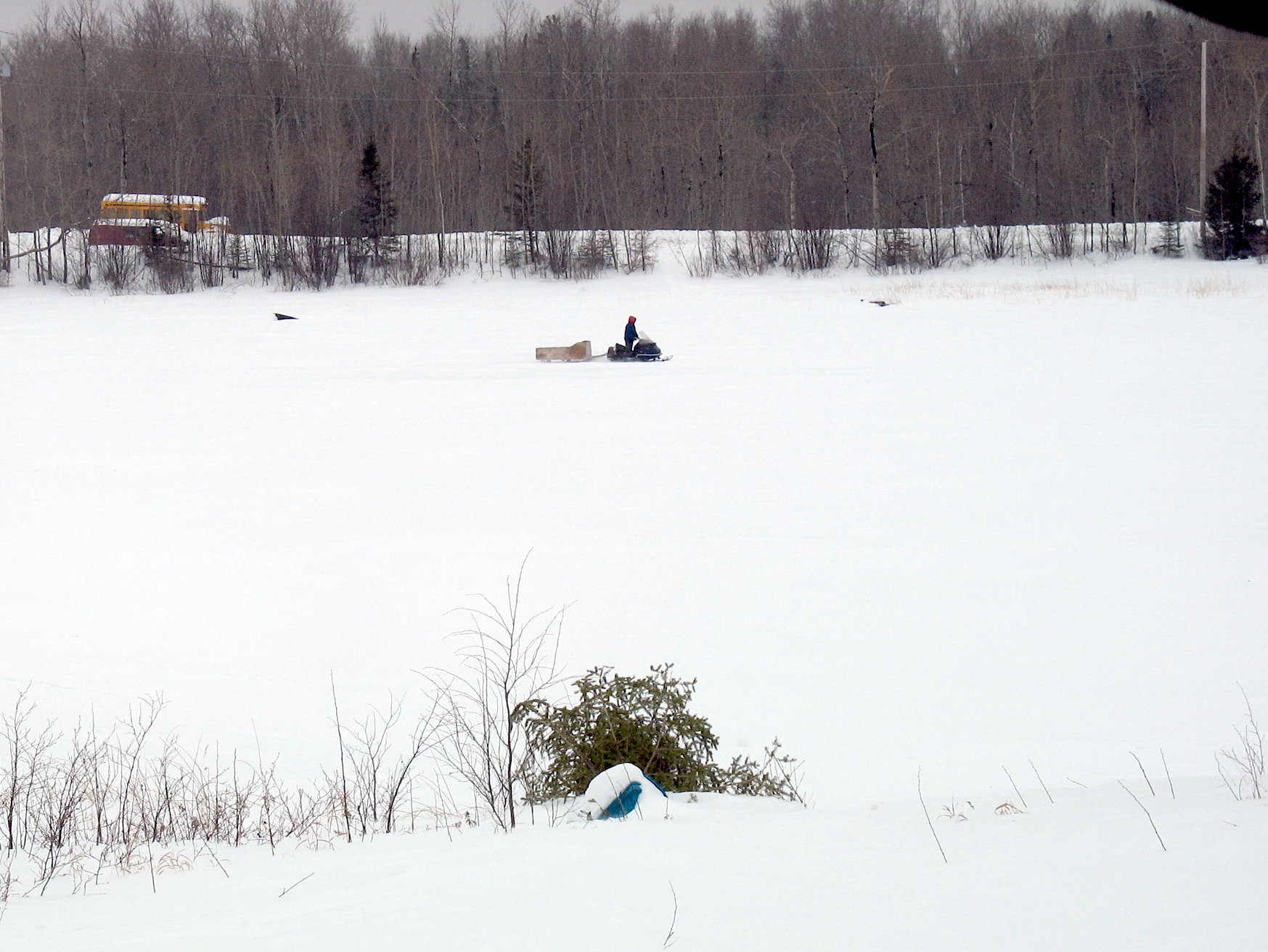 Unknown individual on skidoo driving on the frozen Poplar River taken by Mr. Leslie D. Bruce on March 8, 2007.